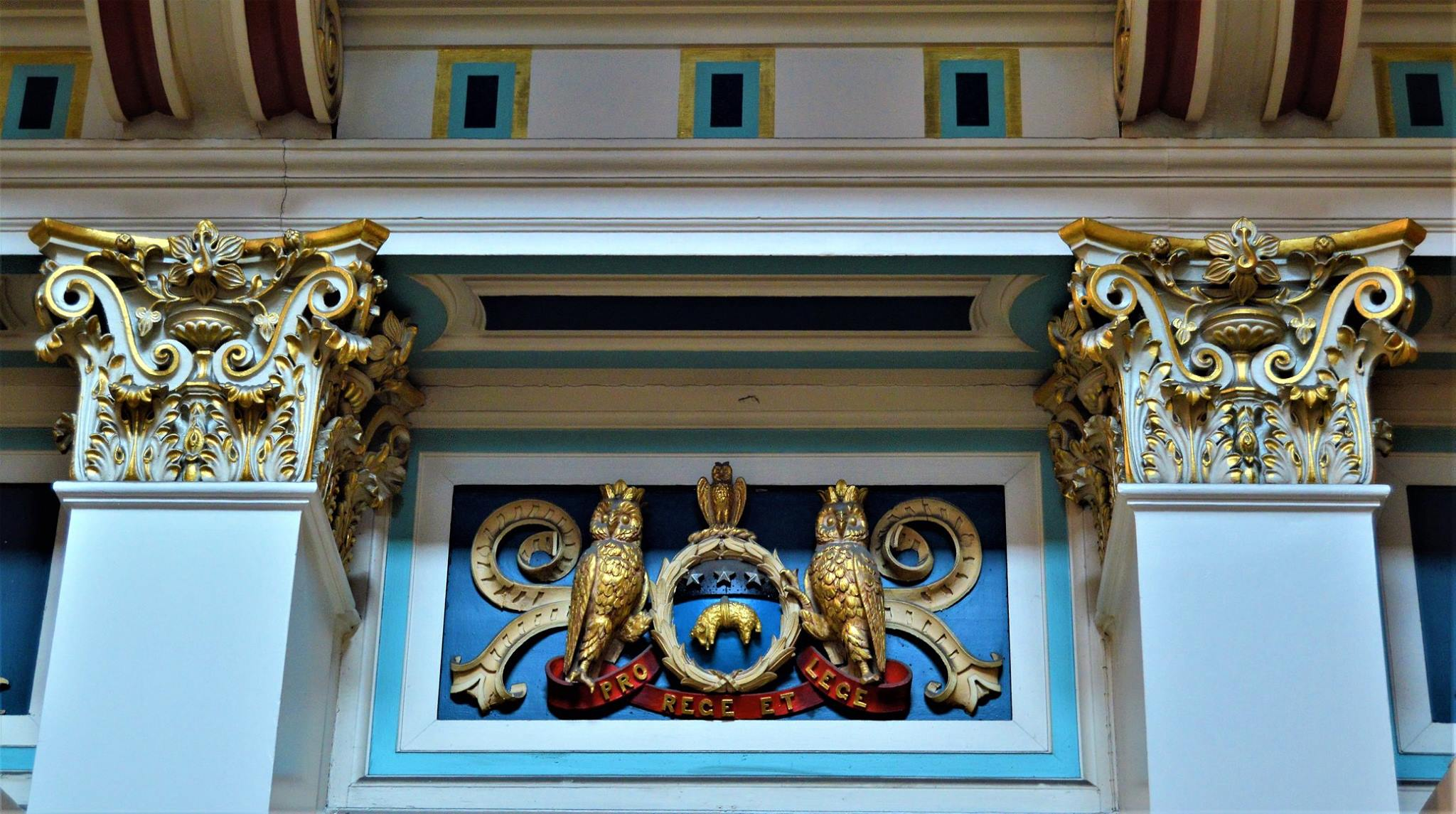 Inside Leeds Town Hall.